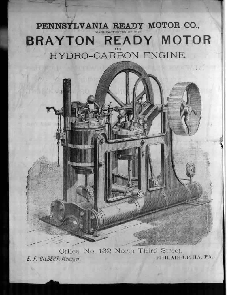 Brayton Ready hydro-carbon engine 1875